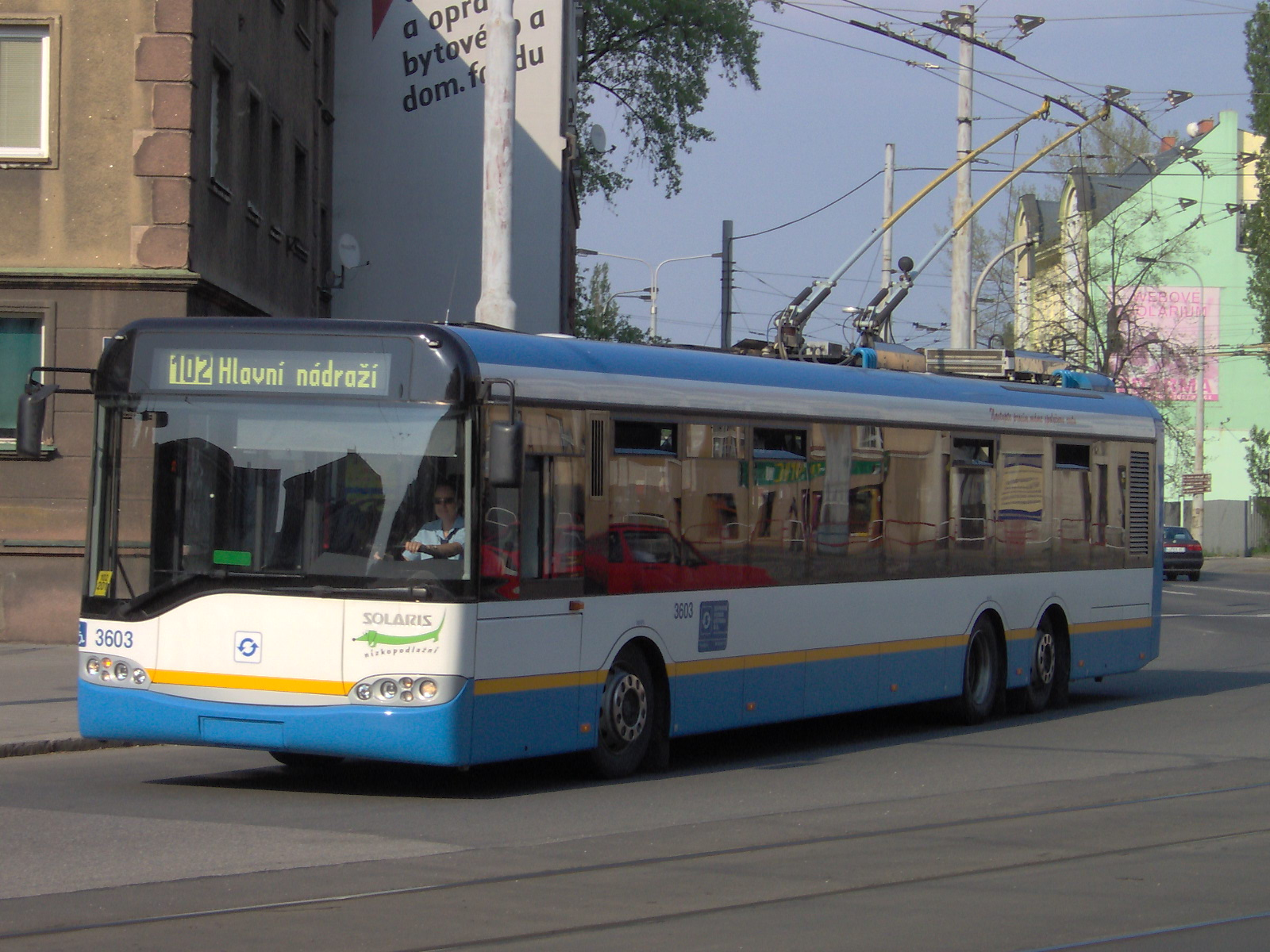 Solaris Trollino 15 trolleybus in Ostrava